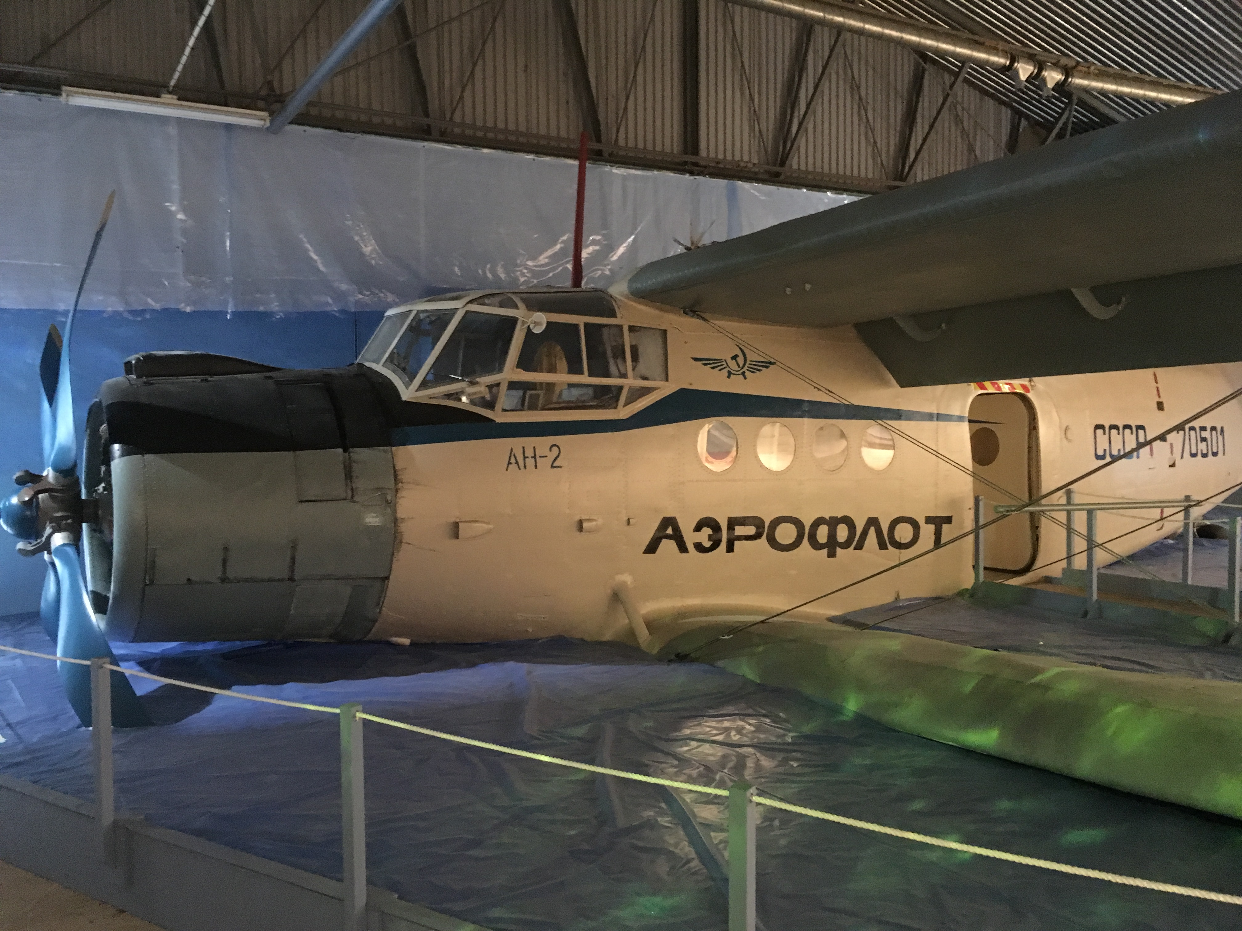 An Antonov An-2 that crashed on the beach at Östergarnsholm in eastern Gotland May 27, 1987, registration CCCP-70501. The plane had started in Saldu in Latvia and on board was a defecting Russian named Victor. He then got a job at a restaurant in Visby. The plane was located at the Visby Flight Museum. Nowadays it is located at Gotland's Defence Museum's exhibition 'Aerospace & Marine' in Tingstäde in Gotland.